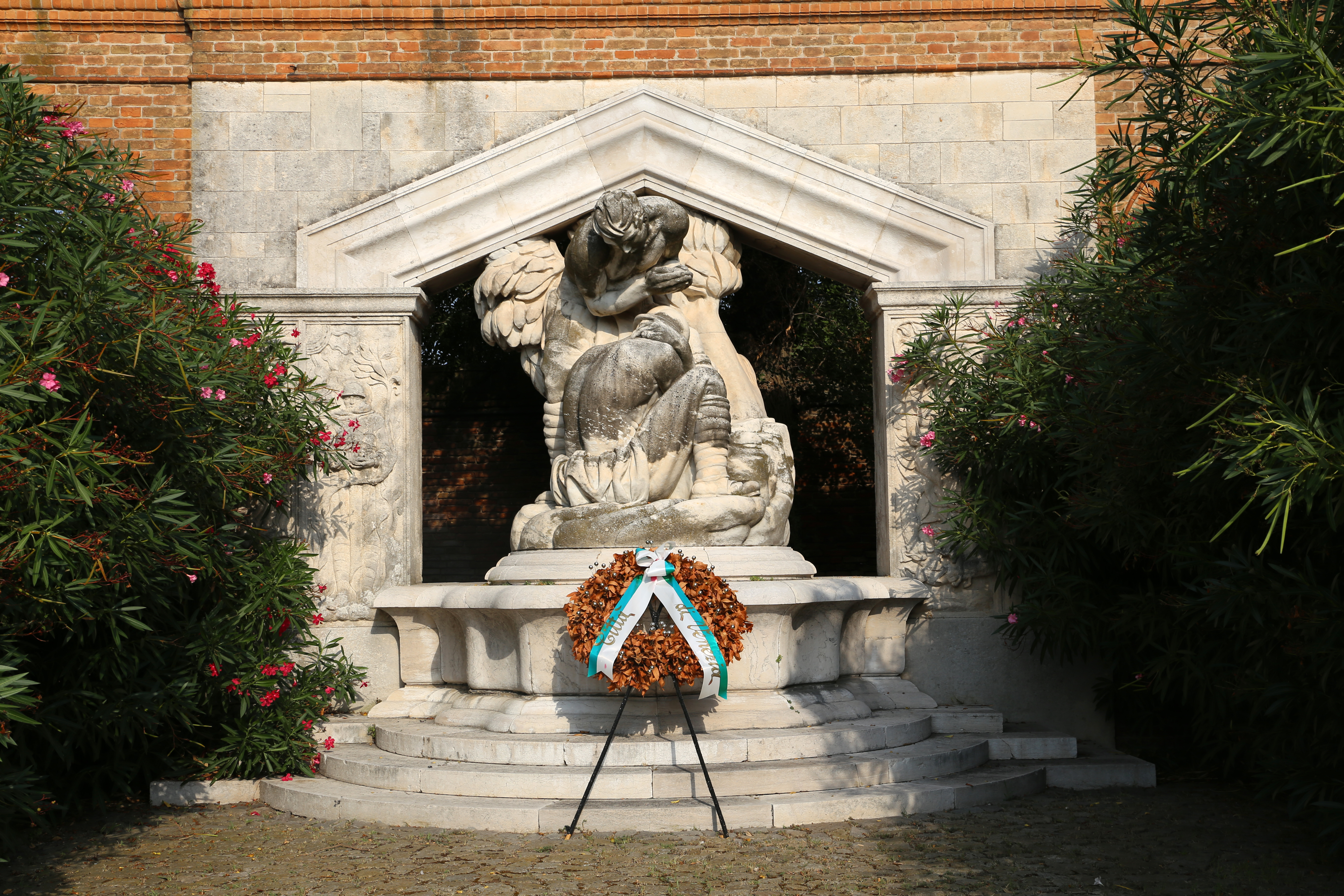 Monument to the War Victims (Murano)